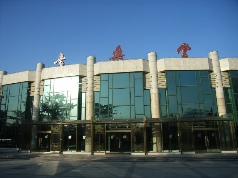 The Forbidden City Concert Hall (Chinese: 中山音乐堂; Zhongshan Music Hall) in Beijing.